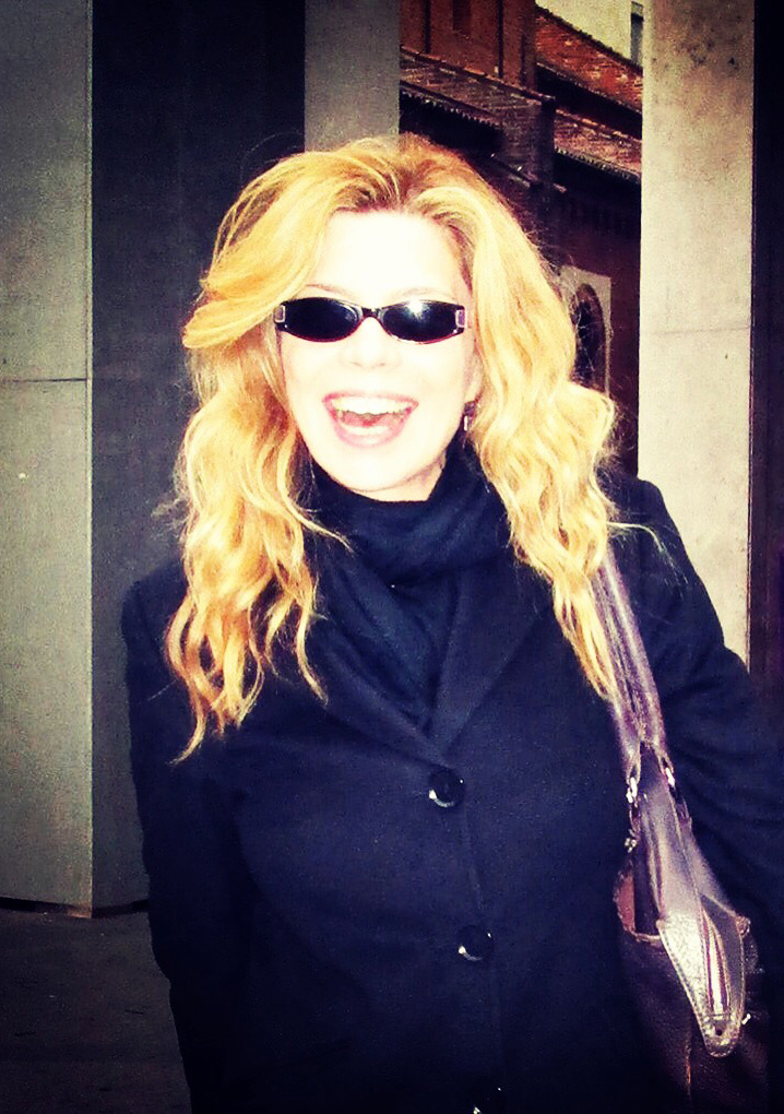 Actres Benedicta Boccoli, at the last acting of Crimini del Cuore, Milan, Teatro San Babila, May, 3rd, 2015